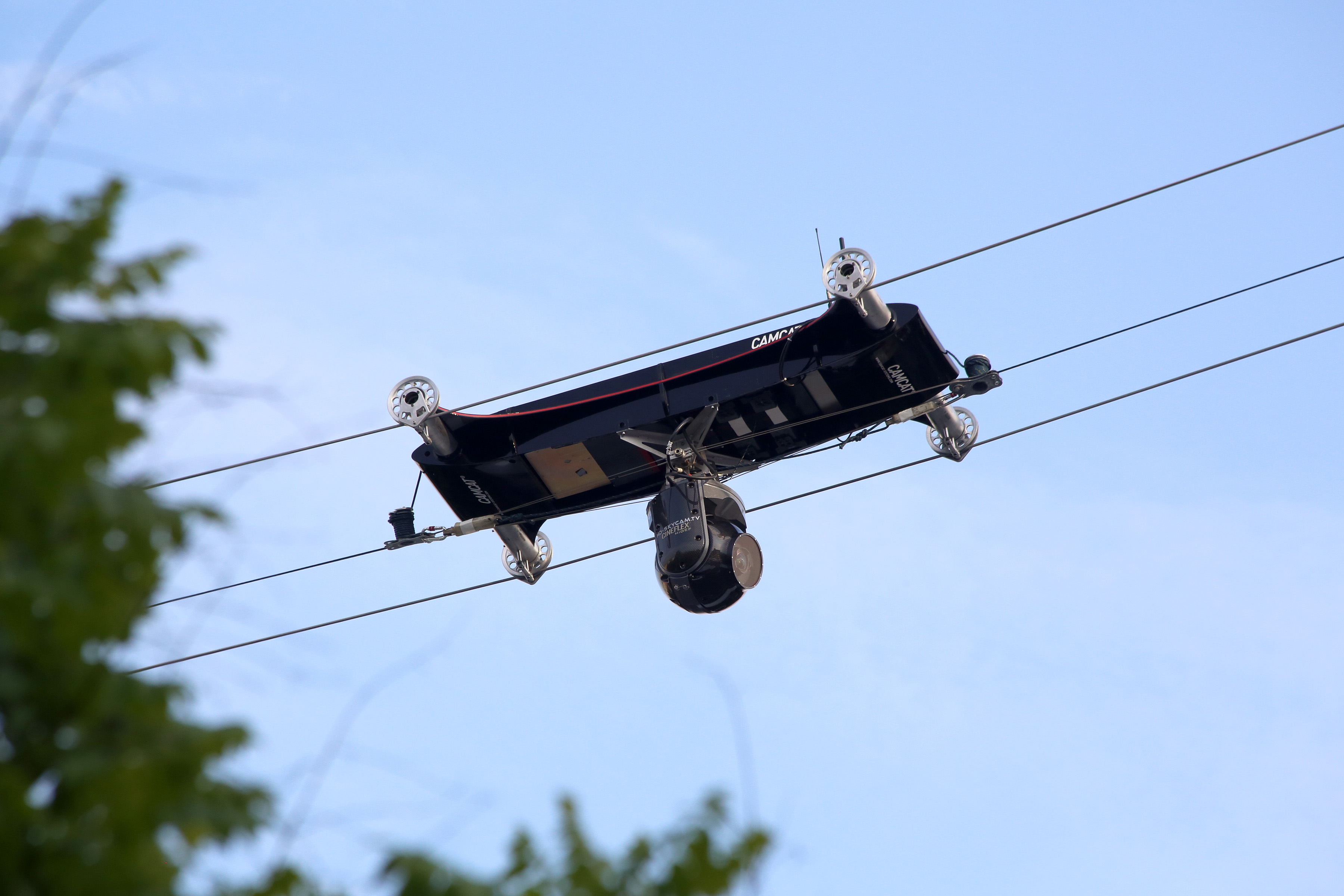 CAMCAT for broadcasting the arrival of the guests and the opening show of the Life Ball 2013 on the square in front of the city hall of Vienna, Vienna, Austria)